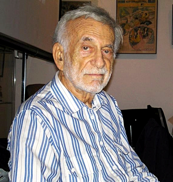 Comic book creator Jerry Robinson by David Shankbone